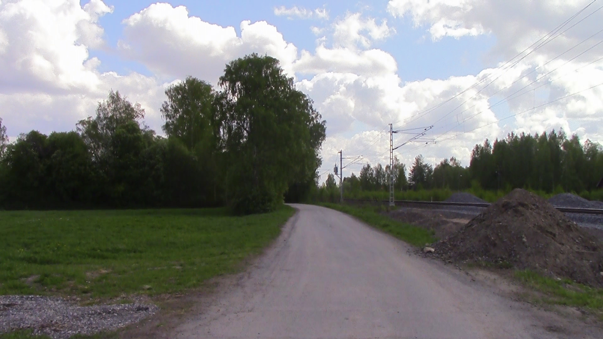 Finnish connecting road 7021 at Ylistaro railway station's village in Seinäjoki, Finland. The road runs from the crossing of connecting road 7000 to railway station and it can be seen almost through Its whole length in the picture.